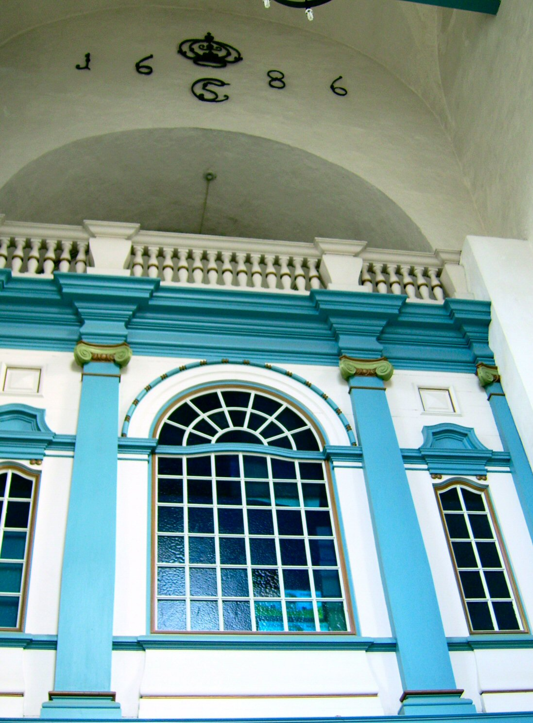 Rococco wall at Our Lady's church, Trondheim, Norway